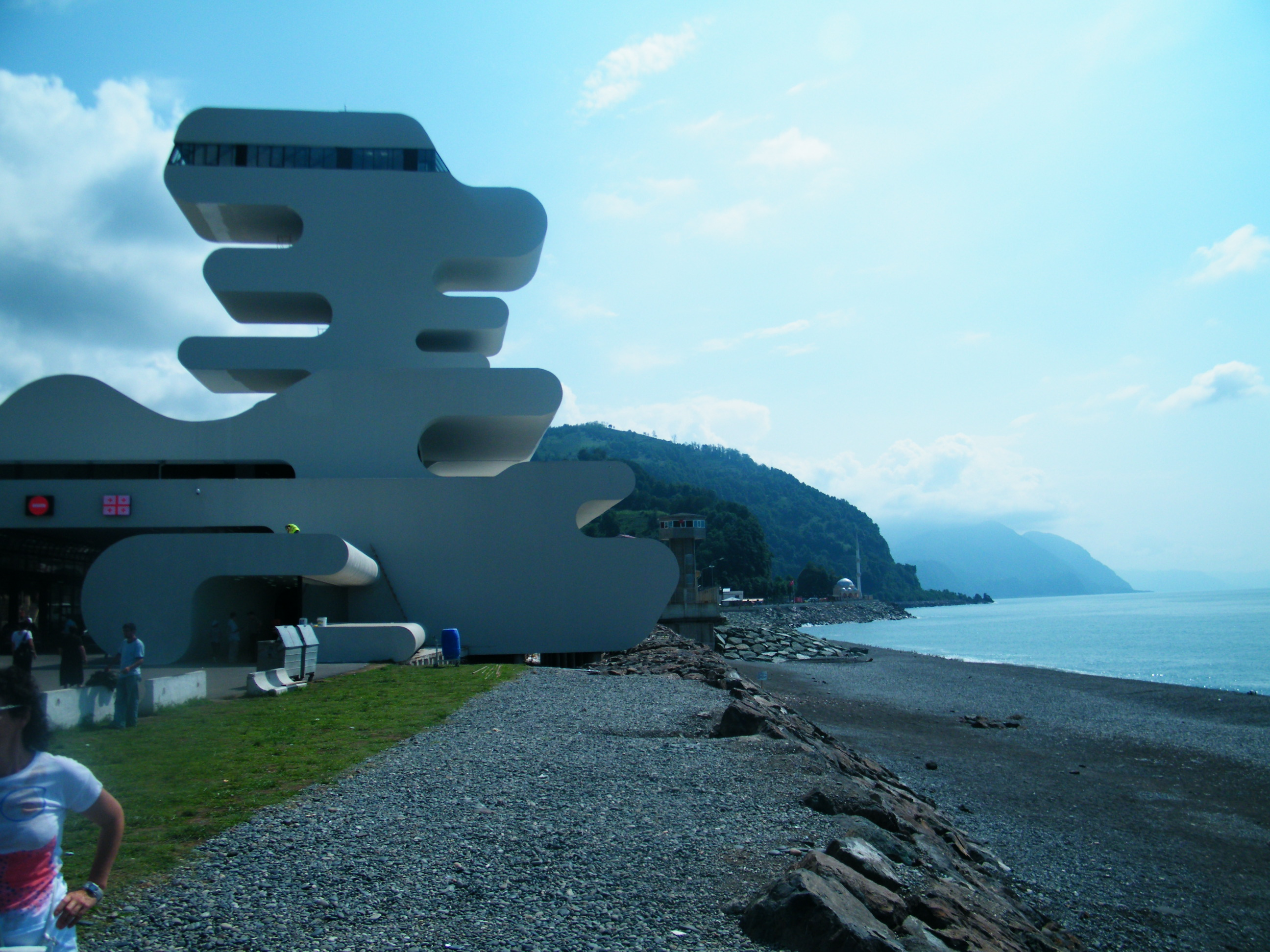 Georgian-Turkish border near the Black Sea